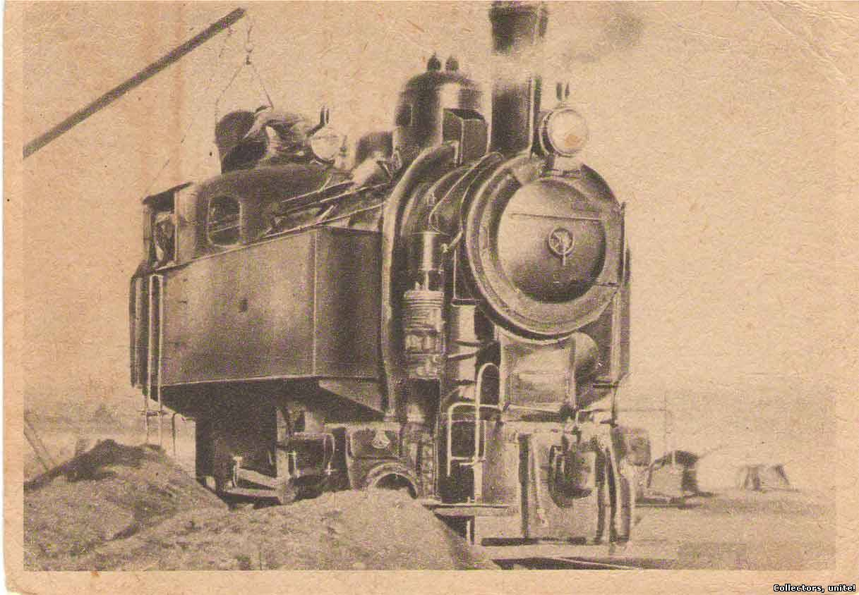 Austrian tank locomotive on construction of Dnieper Hydroelectric Station